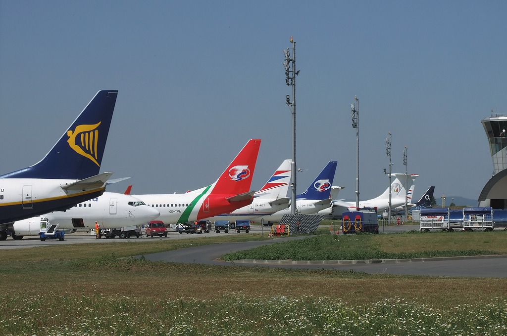 Middle apron at Brno airport